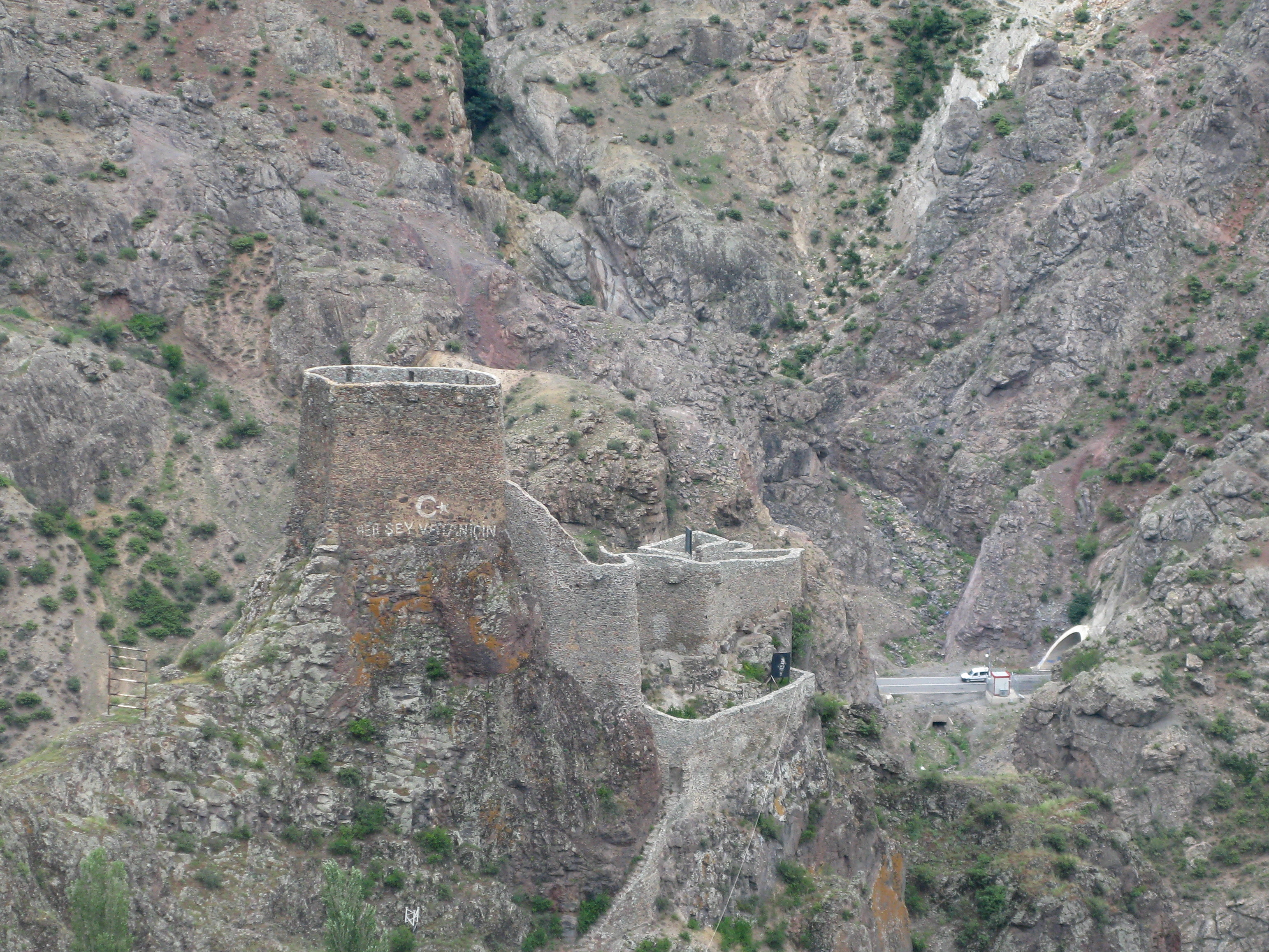 Castle of Artvin in Turkey. Picture taken from the road.